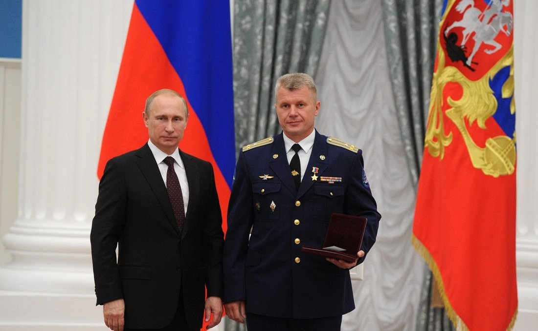 Presenting Russian Federation state decorations. The Hero of the Russian Federation title and honorary title Pilot-Cosmonaut of the Russian Federation is conferred on pilot-cosmonaut Oleg Novitsky.